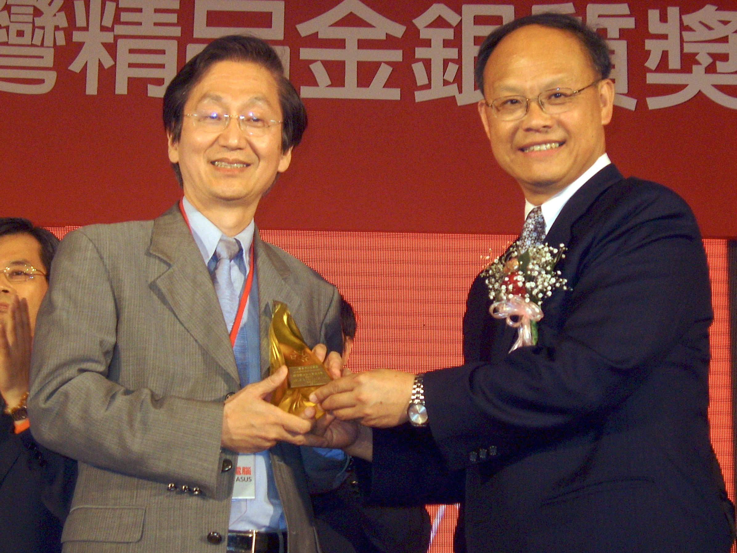 2008 Taiwan Excellence Awards: Gold Award.